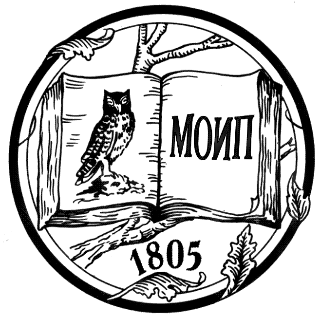 Logo of Moscow society of naturalists